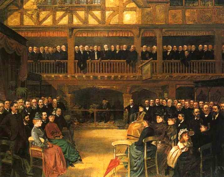 Hammer Price with Buyer's Premium: 4,025 GBP (1998) Meeting of the city of birmingham pharmaceuticals, 1888 signed and dated l.r.: Geo. H. Bernasconi/1888 oil on canvas, unframed 120.5 by 151 cm., 27 1/2 by 59 1/2 in. The present work shows Sir Thomas Barclay and members of Southalls and William Spencer & Sons and includes may exact portraits of the firm's directors and their families. Sir Thomas Barclay, Kt JP, leans against the depiction of 'Ye Apothecary's Laboratorie - Southalls' in the centre. He was the prime mover for piping fresh water from the Welsh mountains to Birmingham and thereby virtually eradicating cholera and typhoid from that city where epidemics had raged in the 19th century. He was also a Liberal councillor for Birmingham. The Lord Mayor of Birmingham and many city fathers stand on the balcony in the background. George H. Bernasconi was a member of a Birmingham family of artists and exhibited in both London and Birmingham.